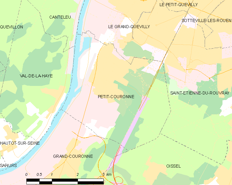 Map of French municipality Petit-Couronne